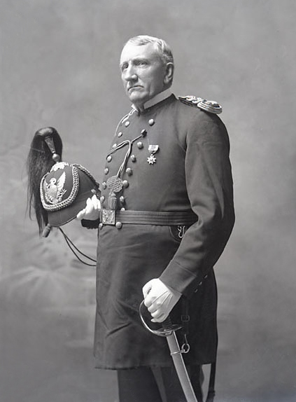 Lieut Richard Henry Pratt, Founder and Superintendent of Carlisle Indian School, in Military Uniform and With Sword 1879.